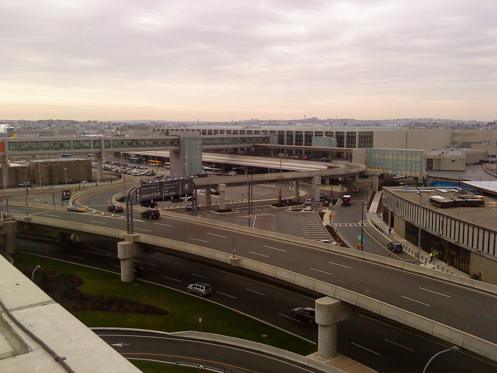 Terminal E, at Boston's Logan International Airport.